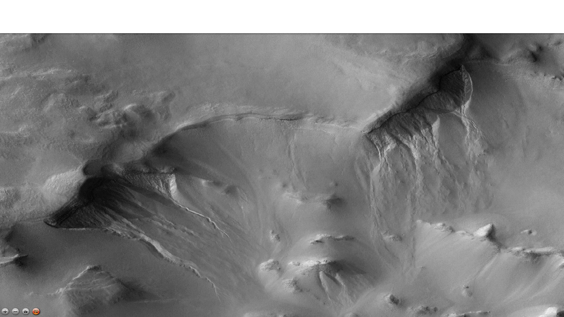 Eastern part of Maunder crater showing gullies, as seen by CTX